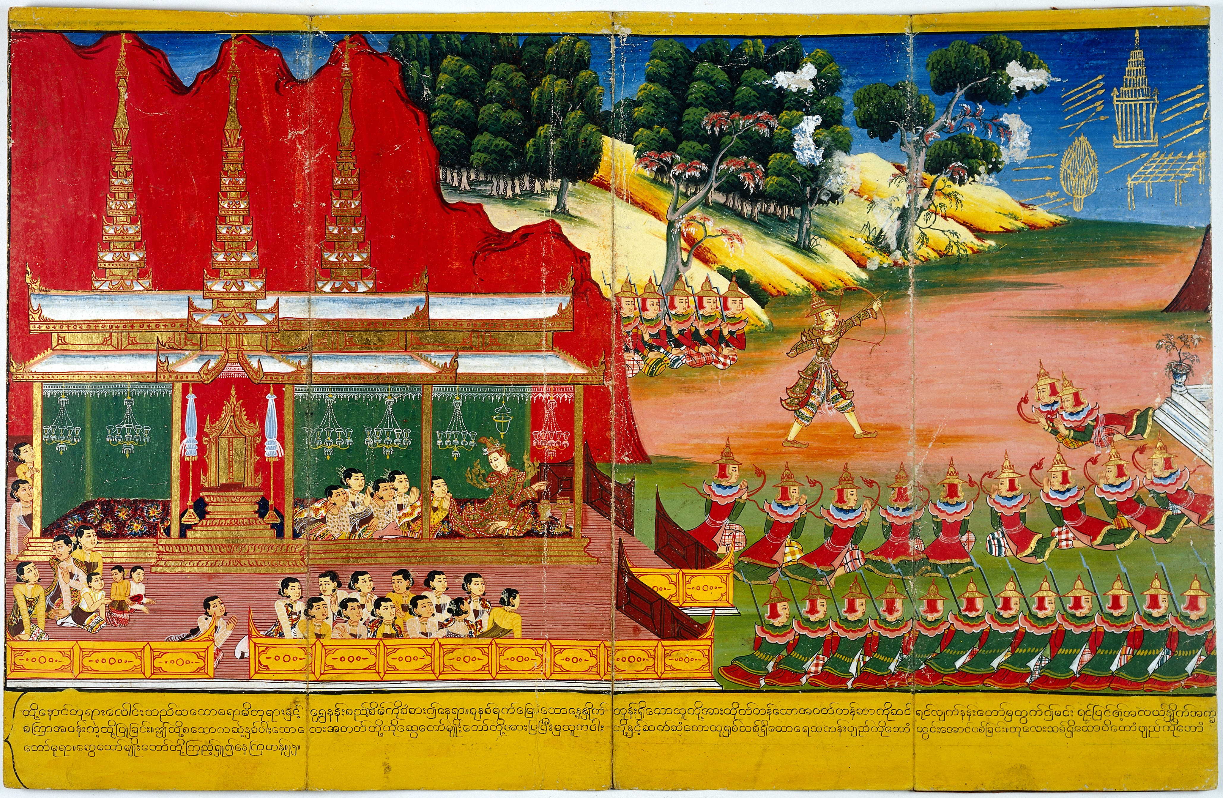 (Left) Princess Yasodhara points to Prince Siddhattha, Bodhisatta performing feats of archery. (Right) The demonstration of the archery skills of Prince Siddhattha, showing three, (top right) of the twelve feats as in the Sarabhanga Jataka, one of the stories of the former lives of Buddha. Asian Collection Keywords: Buddhist; God; ms burmese 22; Buddhism; Religion; Art; Buddha